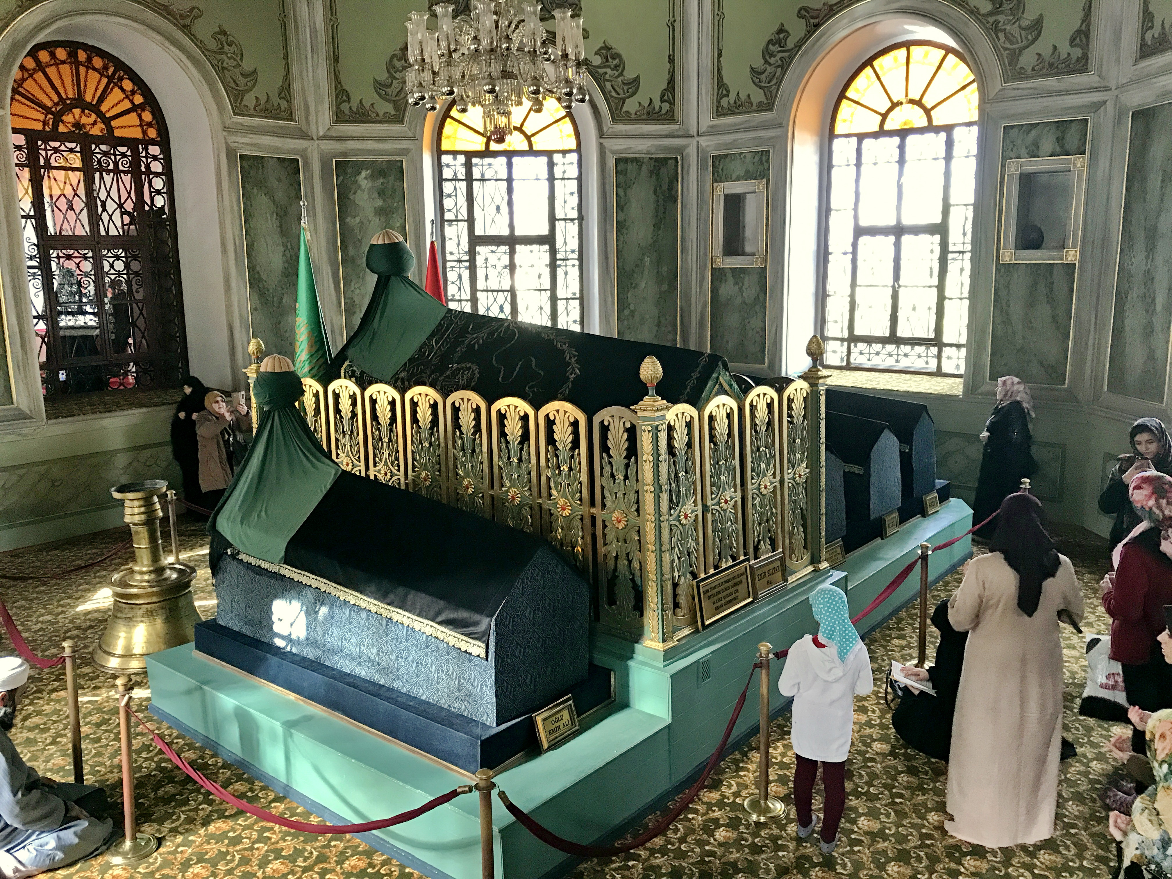 Emir Sultan Mosque in Bursa, Turkey.